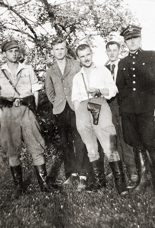 Hieronim Dekutowski (1918-1949) – Major of the Polish Army, Cichociemni soldier, commander of partisan troops of Armia Krajowa (during WW II) and Wolność I Niezawisłość (Freedom and Independence) after the WW II. Here with soldiers of his unit.